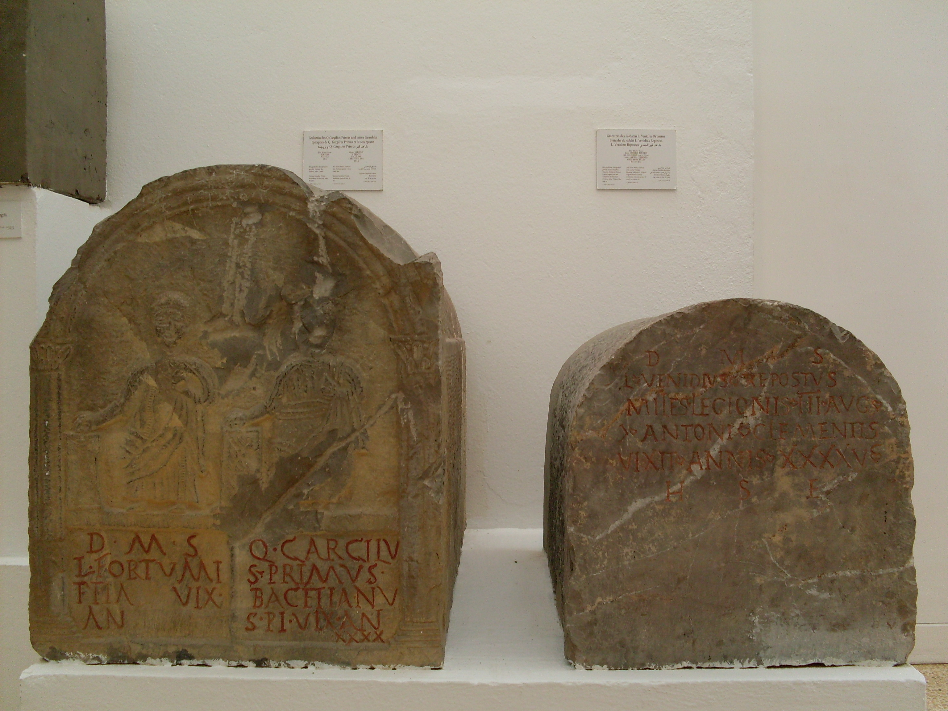 2 stèles funéraires au musée archéologique de Chemtou, Chemtou, Gouvernerat de Jendouba, Tunisie